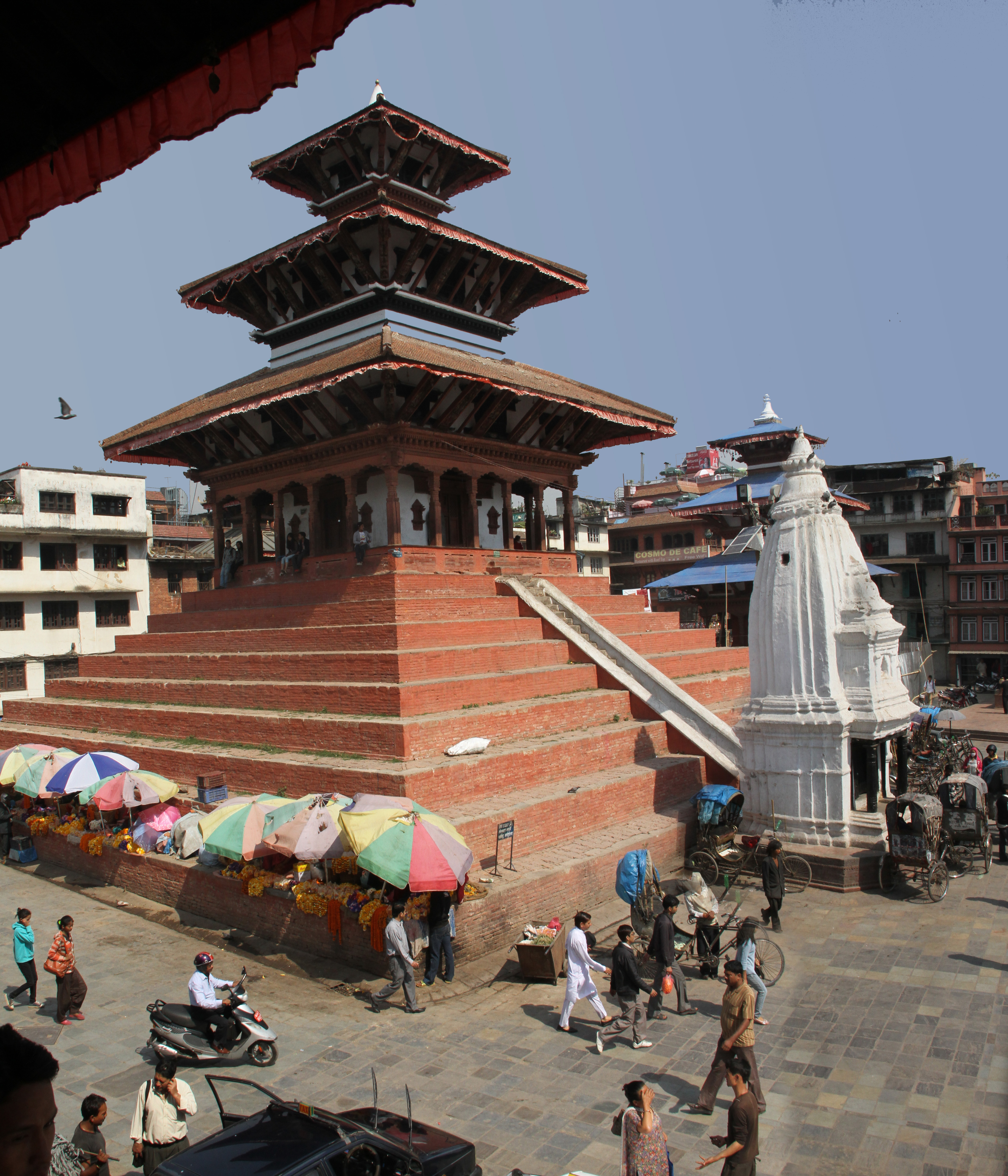 Kathmandu, Durbar square, Maju Dega